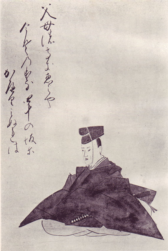 a self-portrait of Tadahiko Iida